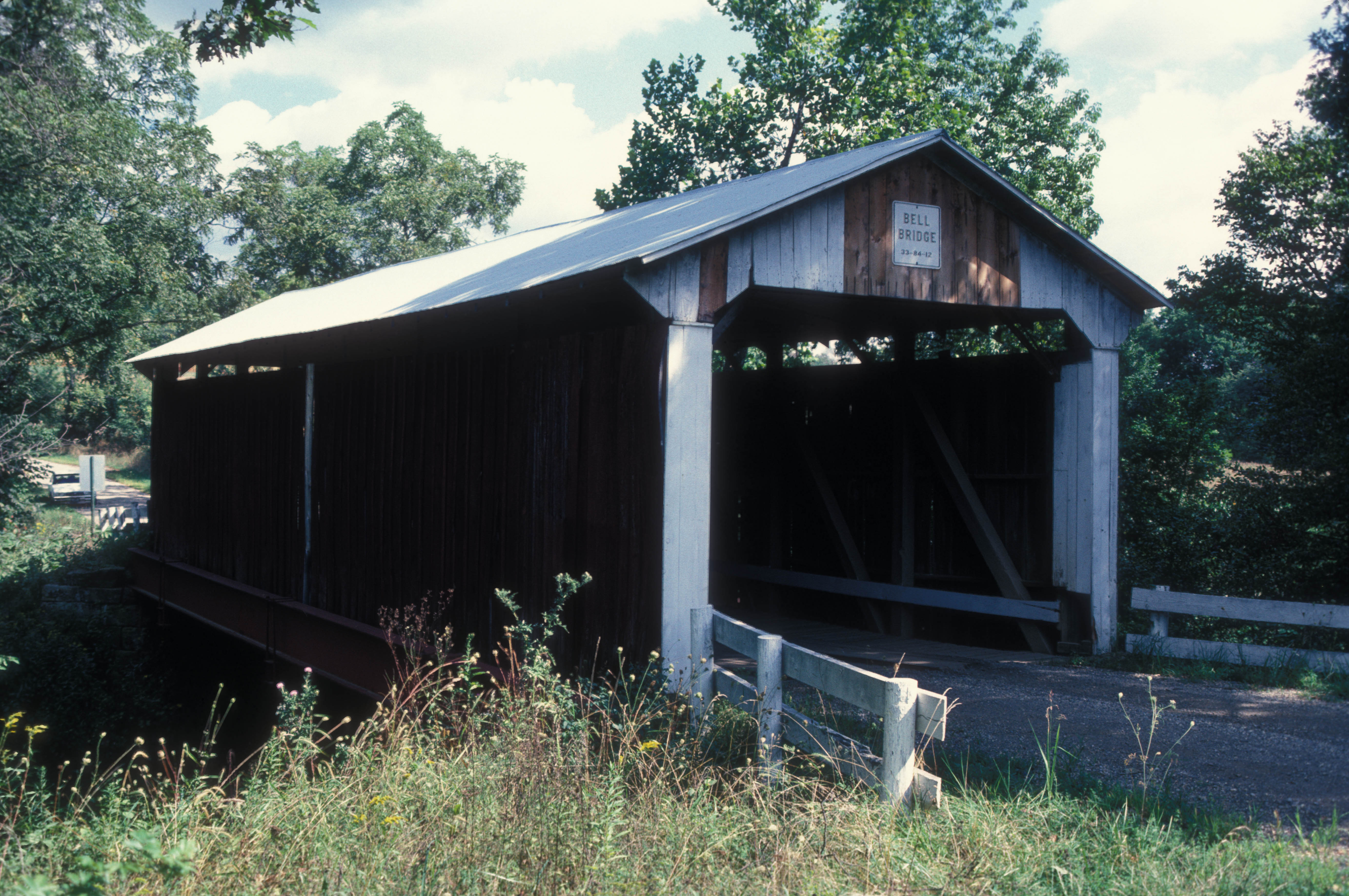 63' 1888 MKING OVER SOUTH FORK WOLF CREEK